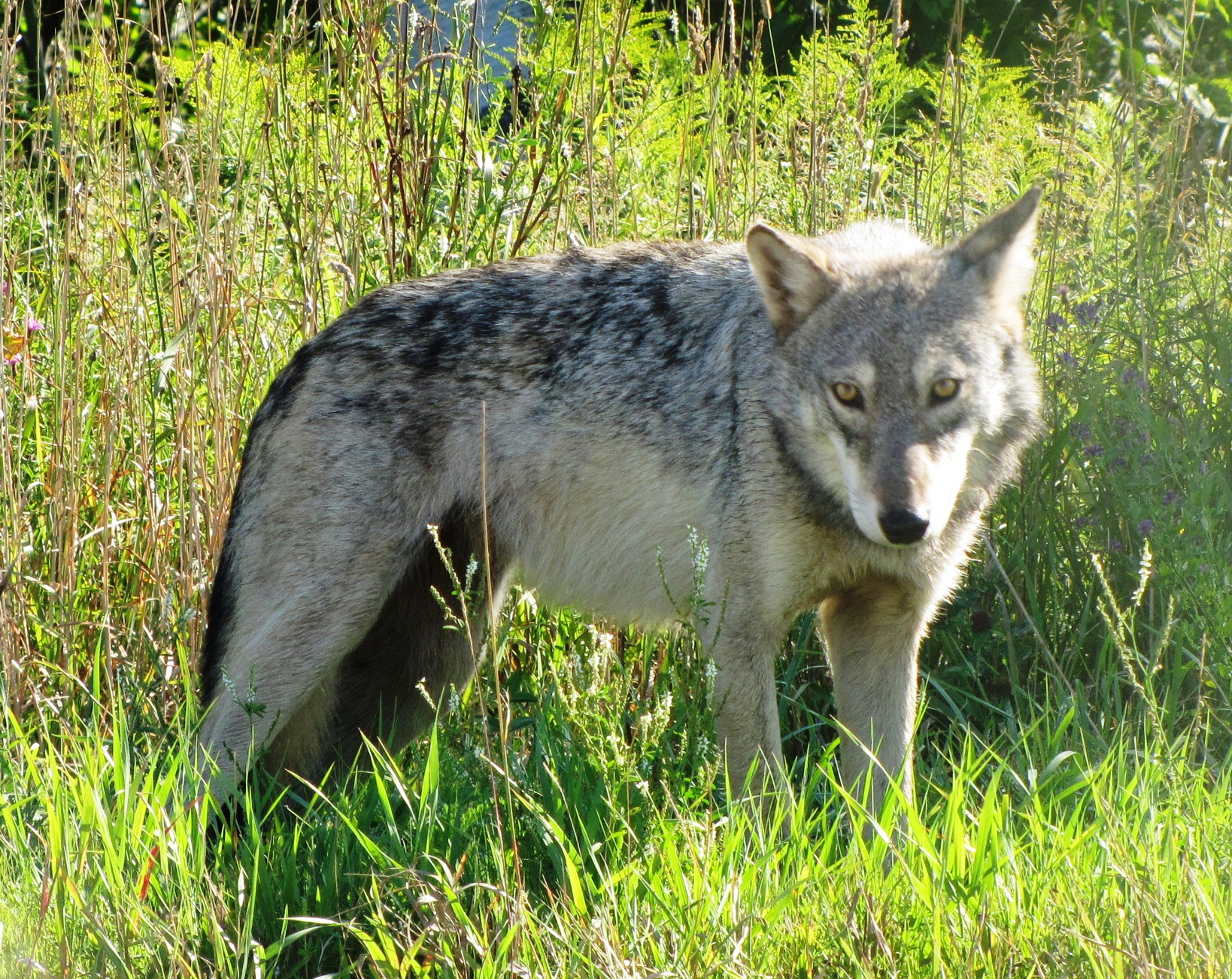 Gray Wolf Canis lupus at Seney National Wildlife Refuge, Michigan.